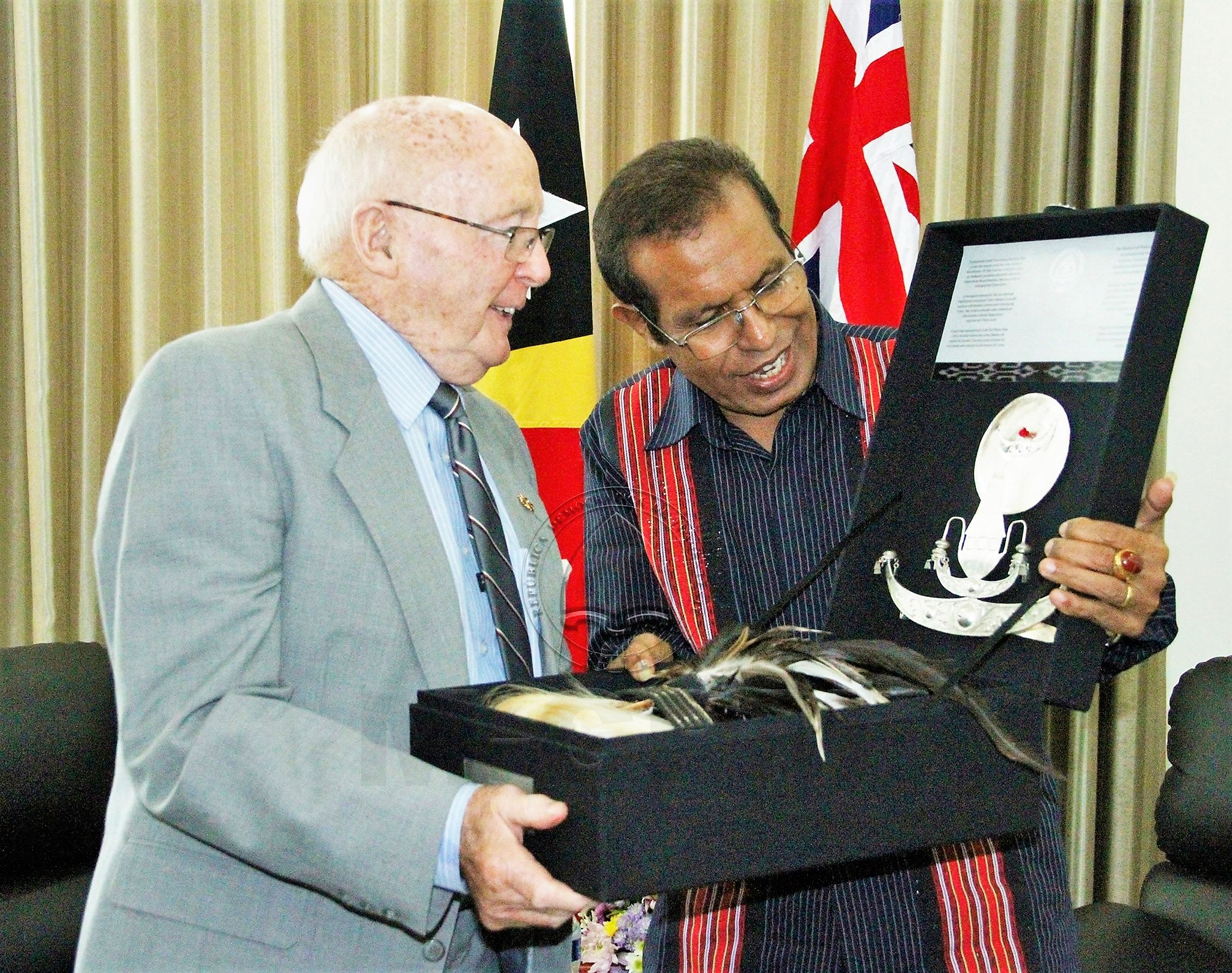 Gordon McIntosh and Taur Matan Ruak, prime minister of East Timor